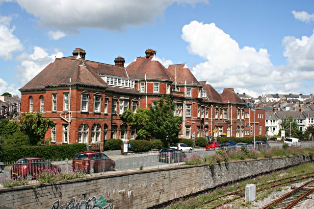 This image was taken from the Geograph project collection. See this photograph's page on the Geograph website for the photographer's contact details. The copyright on this image is owned by Tony Atkin and is licensed for reuse under the Creative Commons Attribution-ShareAlike 2.0 license. Attribution: Tony Atkin